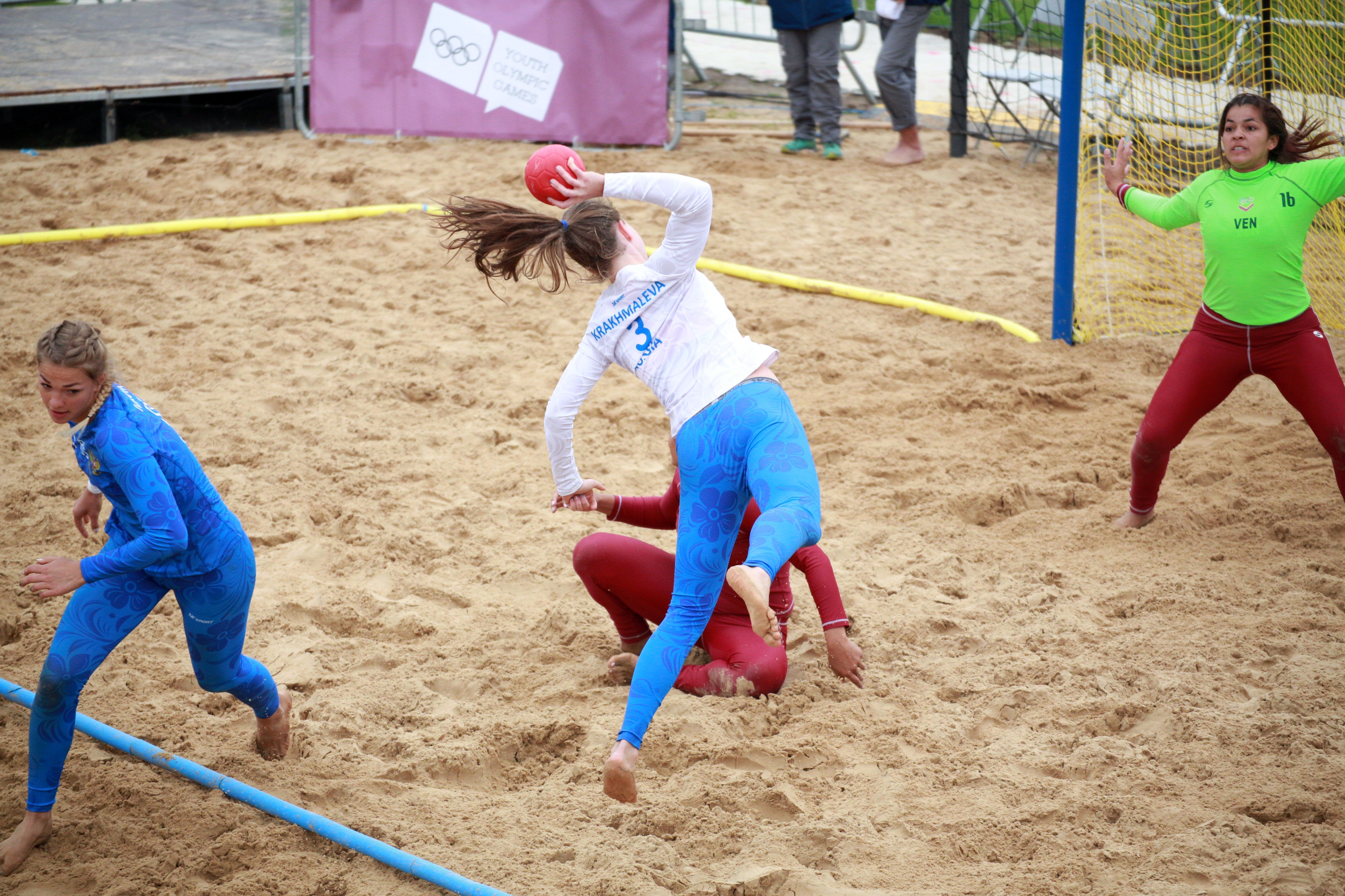 Beach handball at the 2018 Summer Youth Olympics at 12 October 2018 – Girl's Consolation Round – Russland-Venezuela 2:0